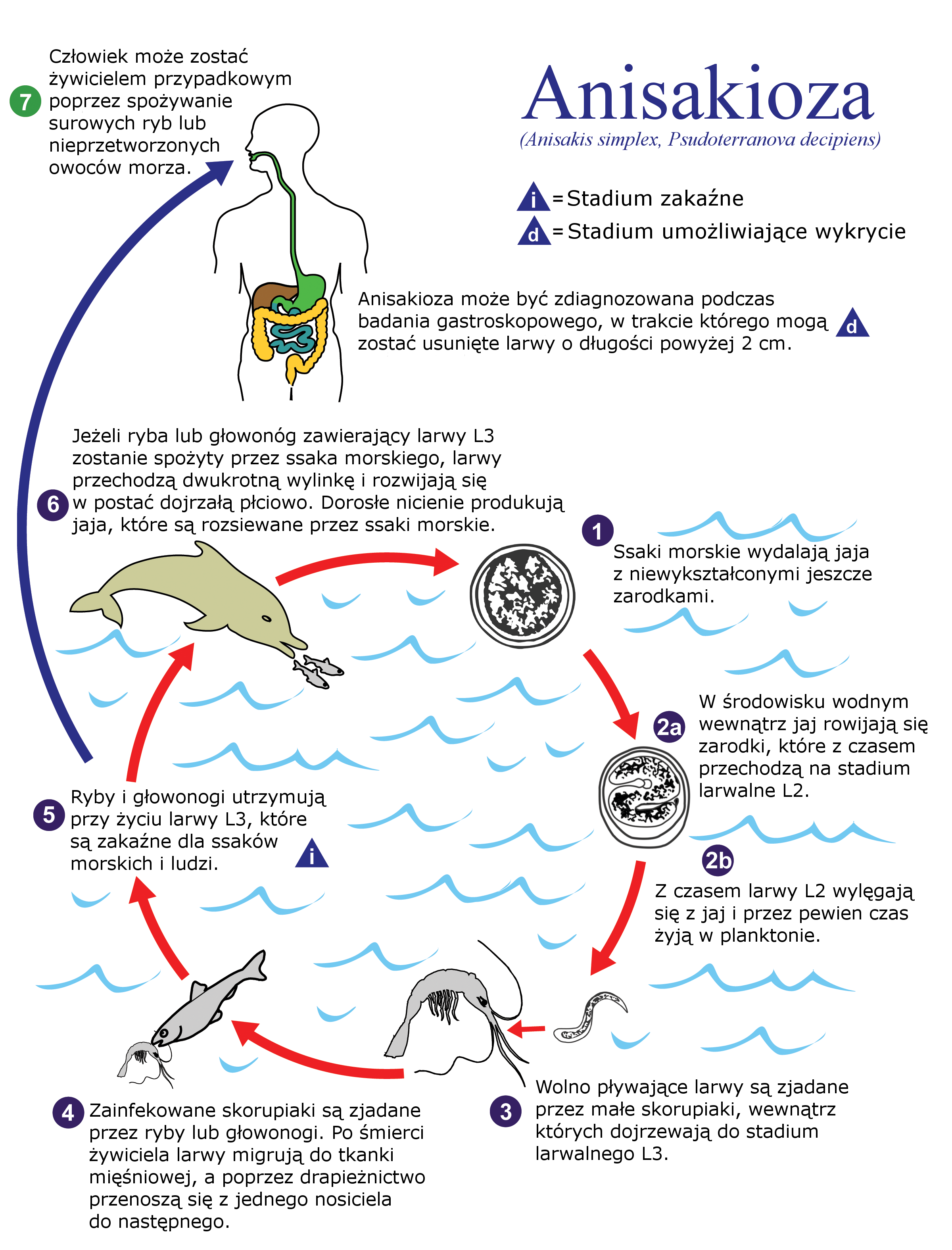 The life cycle of Anisakis simplex and Pseudoterranova decipiens, the causal agents of Anisakiasis.